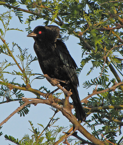 A Bronzed Cowbird in Cape May Point State Park, Tucson, Arizona, USA.